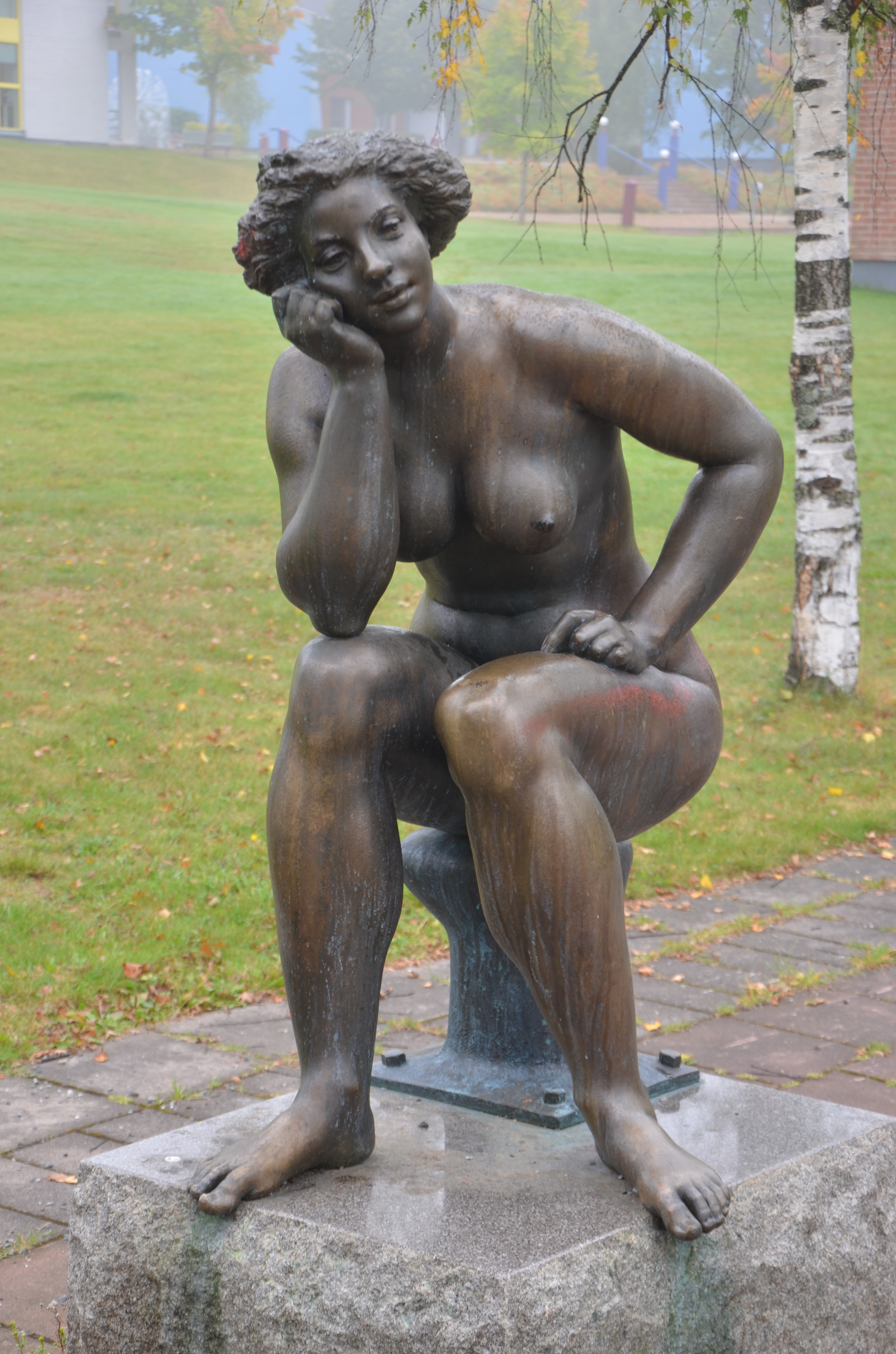 Meditation av Peter Linde i Hällefors This reproduction of an architectural work or work of art, is covered under the Swedish law of copyright for literary and artistic works (Law 1960:729, paragraph 24), which states that "Work of art may be depicted if it is permanently placed on or at a public place outdoors. Buildings may be freely depicted." See Commons:Freedom of panorama#Sweden for more information.